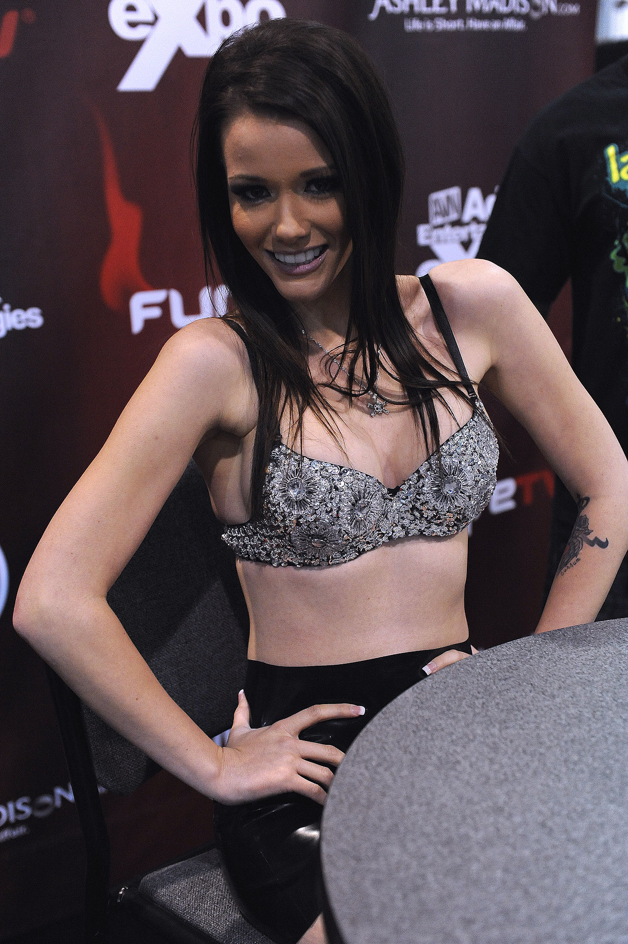 Raven Alexis at AVN Adult Entertainment Expo 2011